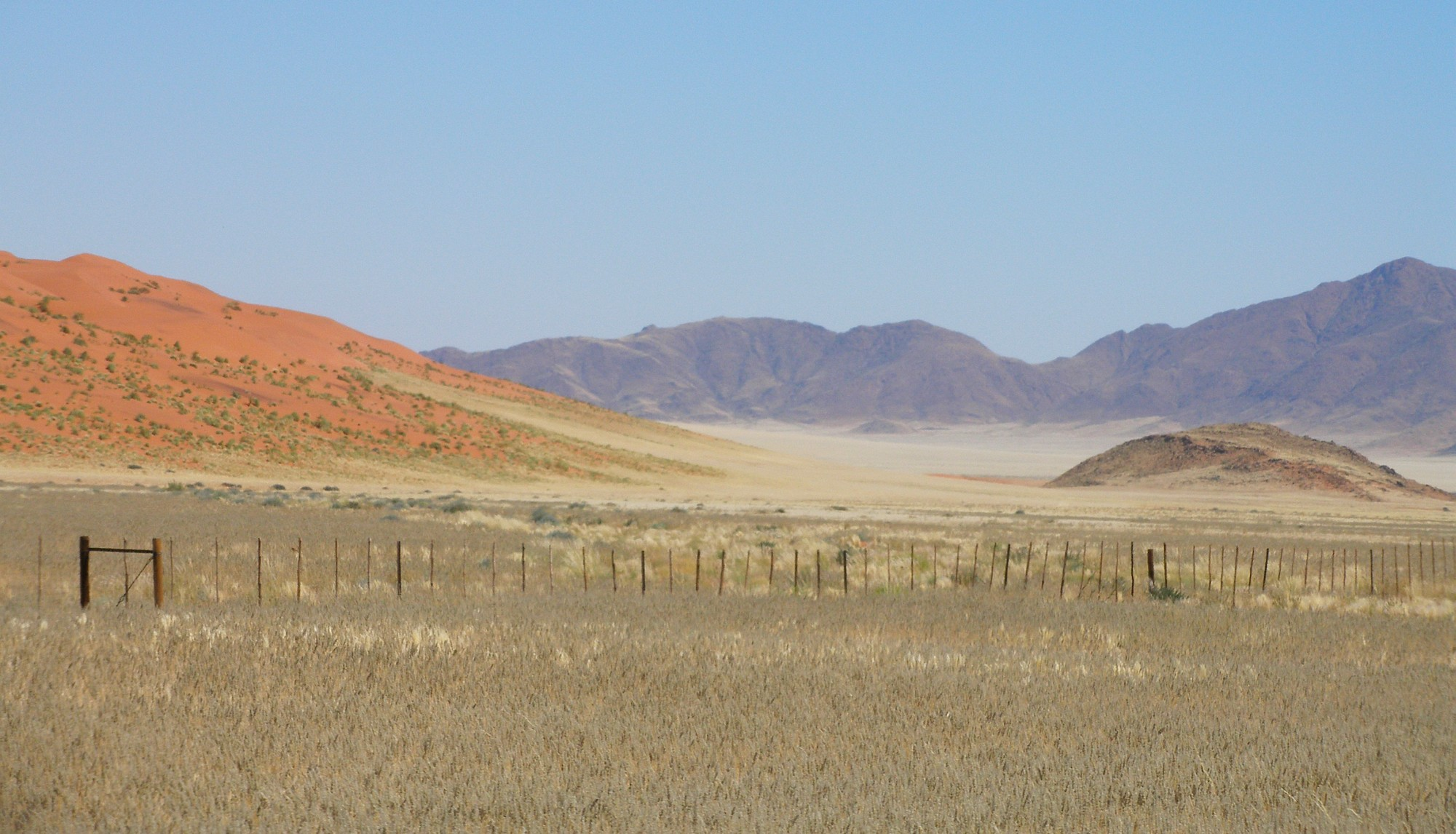 Typical Namibia: Red sand of the Namib, mountains, savannah and a fence